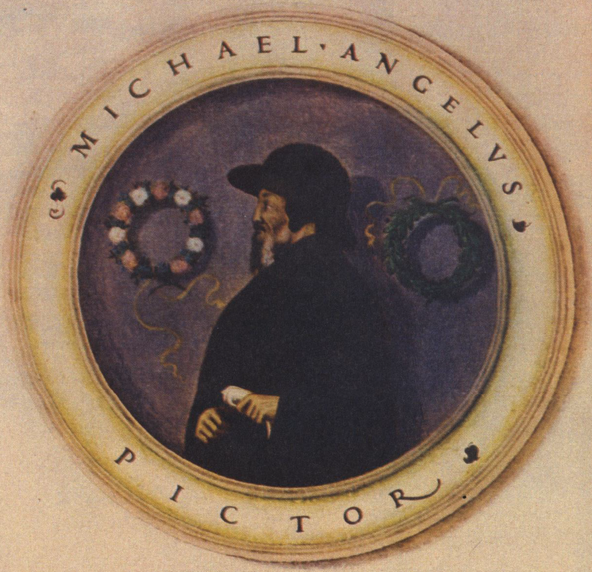 Portrait of Michelangelo Buonarroti, by Francisco de Holanda, in his Álbum dos Desenhos das Antigualhas (1538-1540).